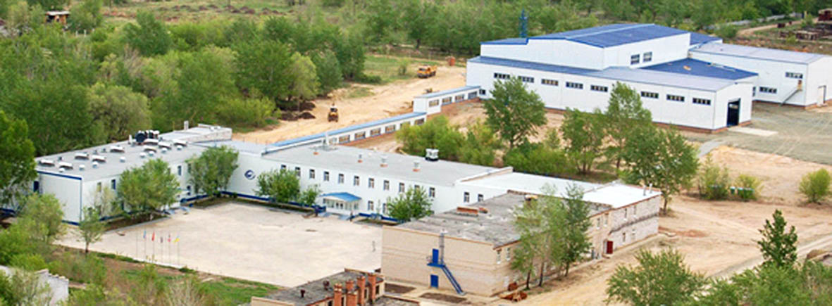 Assembly, Integration and Test Building incorporating clean room facilities and fueling station, and Admin & Hotel Complex of Yasni launch base in Orenburg Region, Russia